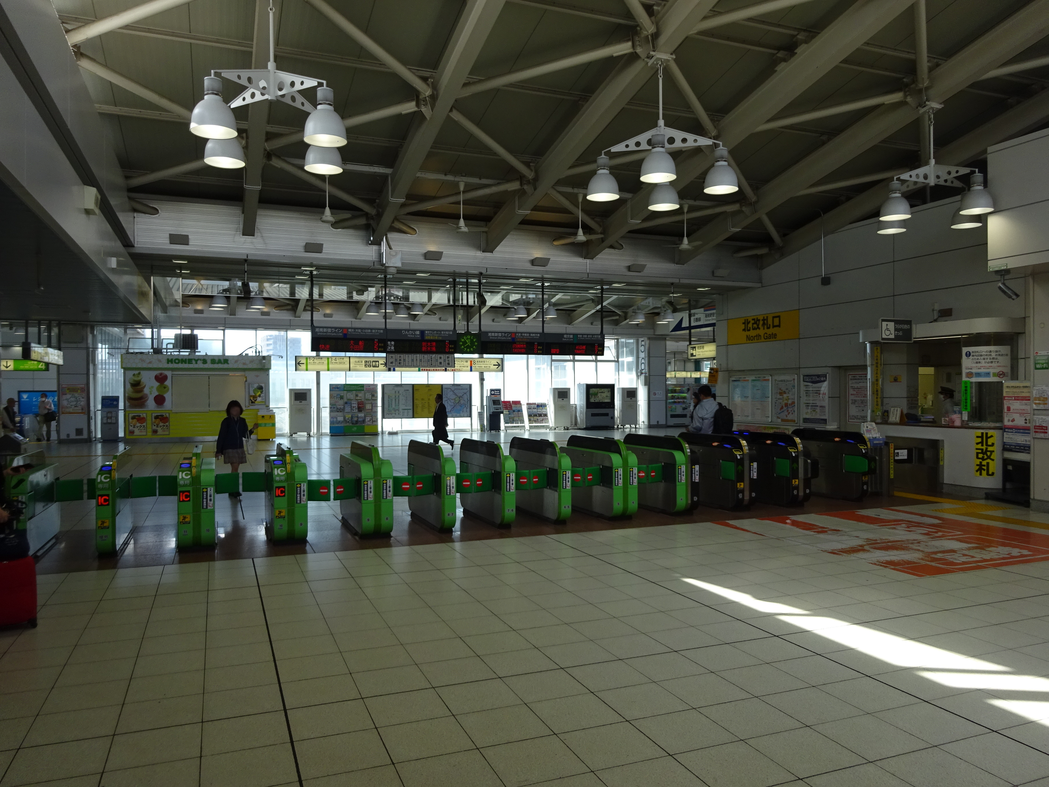 Ticket gate of Ōsaki Station(North gate)